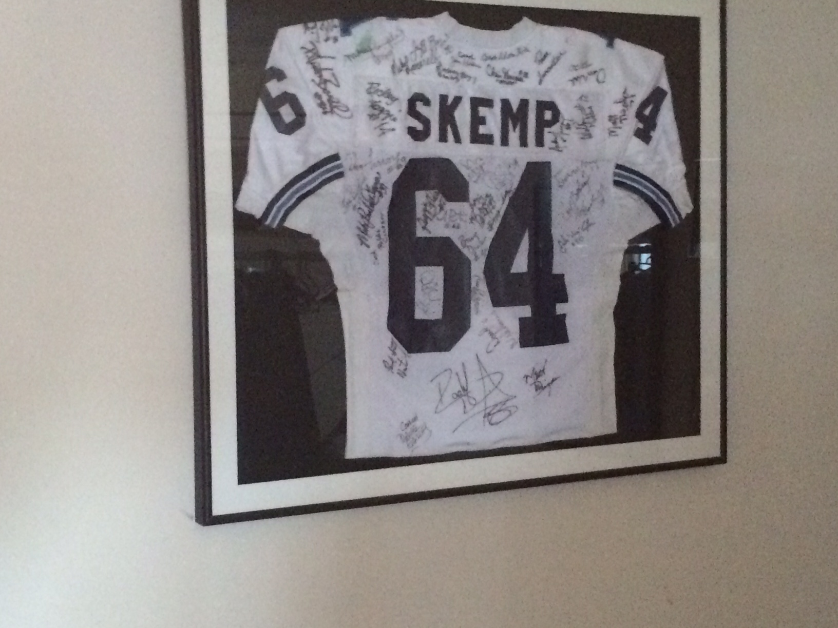 Game worn 1991 Grey Cup Championship jersey signed by the team